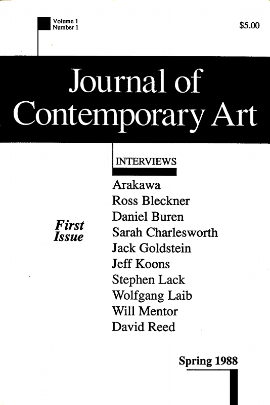 Journal of Contemporary Art Vol.1 No.1 1988 cover. Cover design on Apple Macintosh Plus 1987 by Philip Pocock.